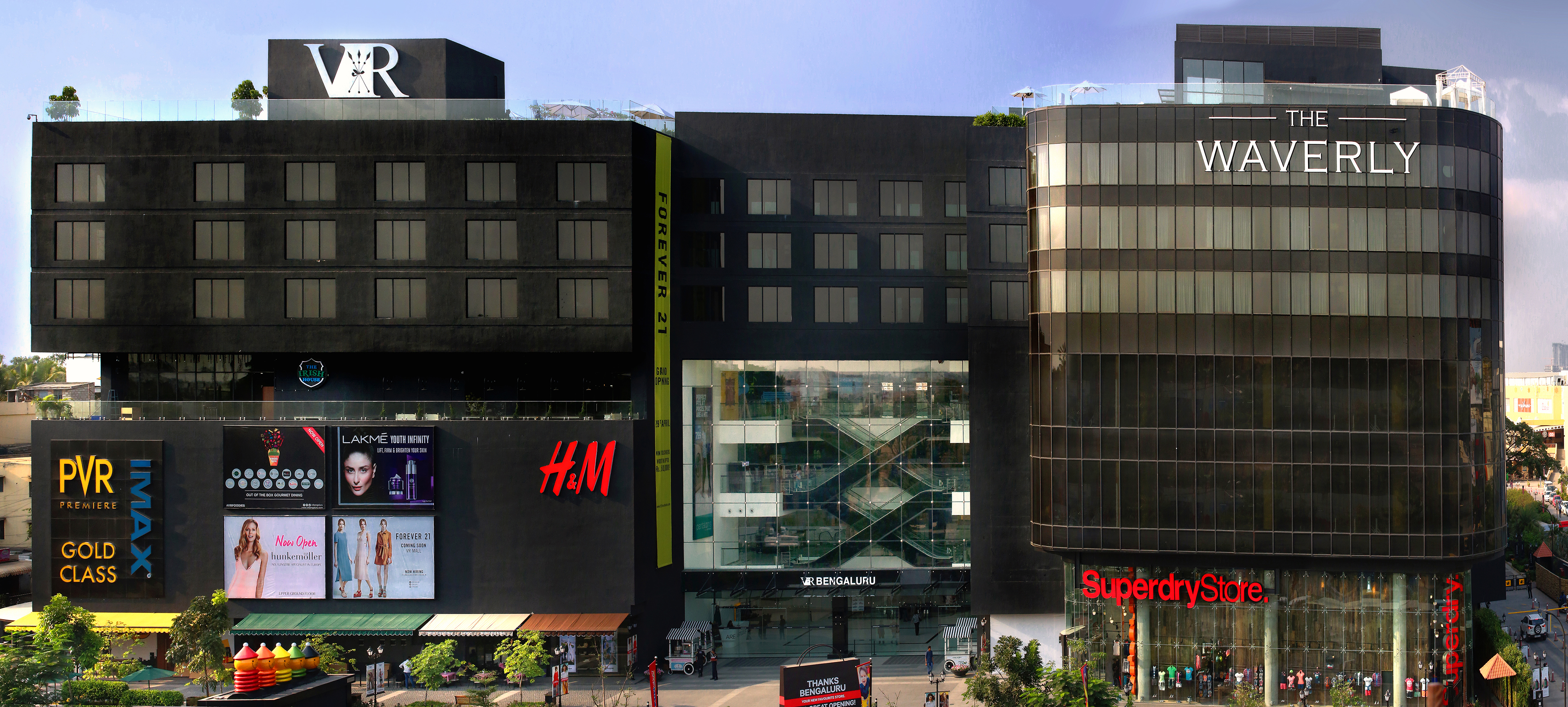 VR Bengaluru, integrated lifestyle & community centre, containing a retail arcade (mall), luxury boutique hotel and customisable co-working spaces for start-up and entrepreneurs